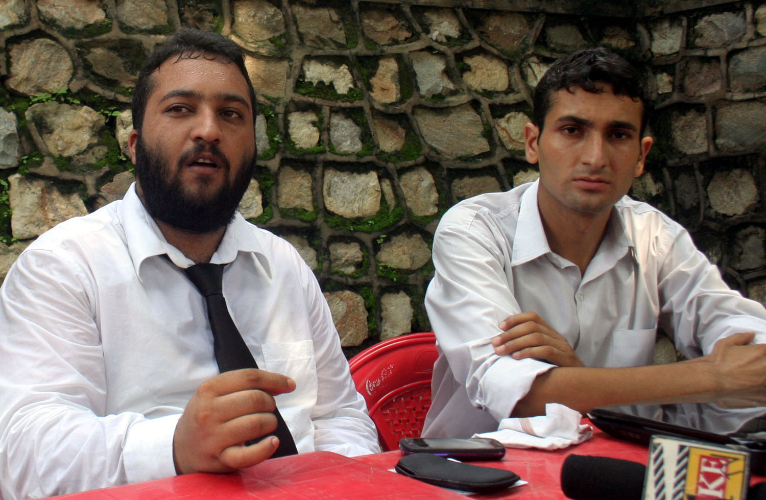 this is profile pic of chenab valley peoples association president accompined by vice president